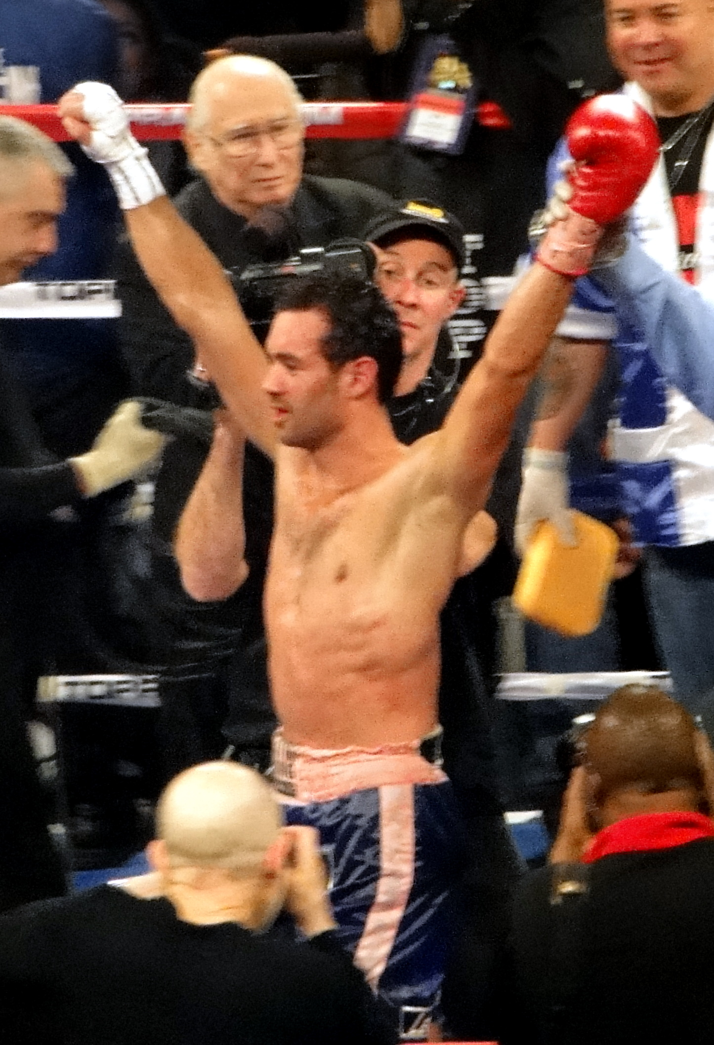 Delvin Rodriguez at the Madison Square Garden on December 3, 2011.